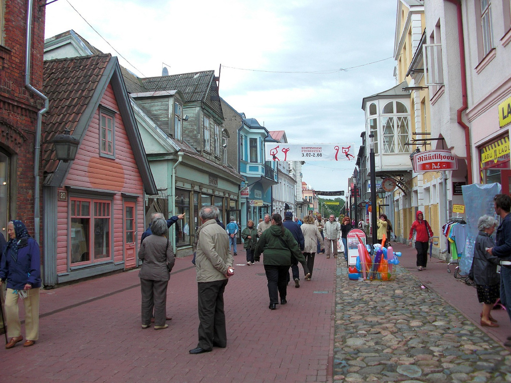 Pärnu, Estonia